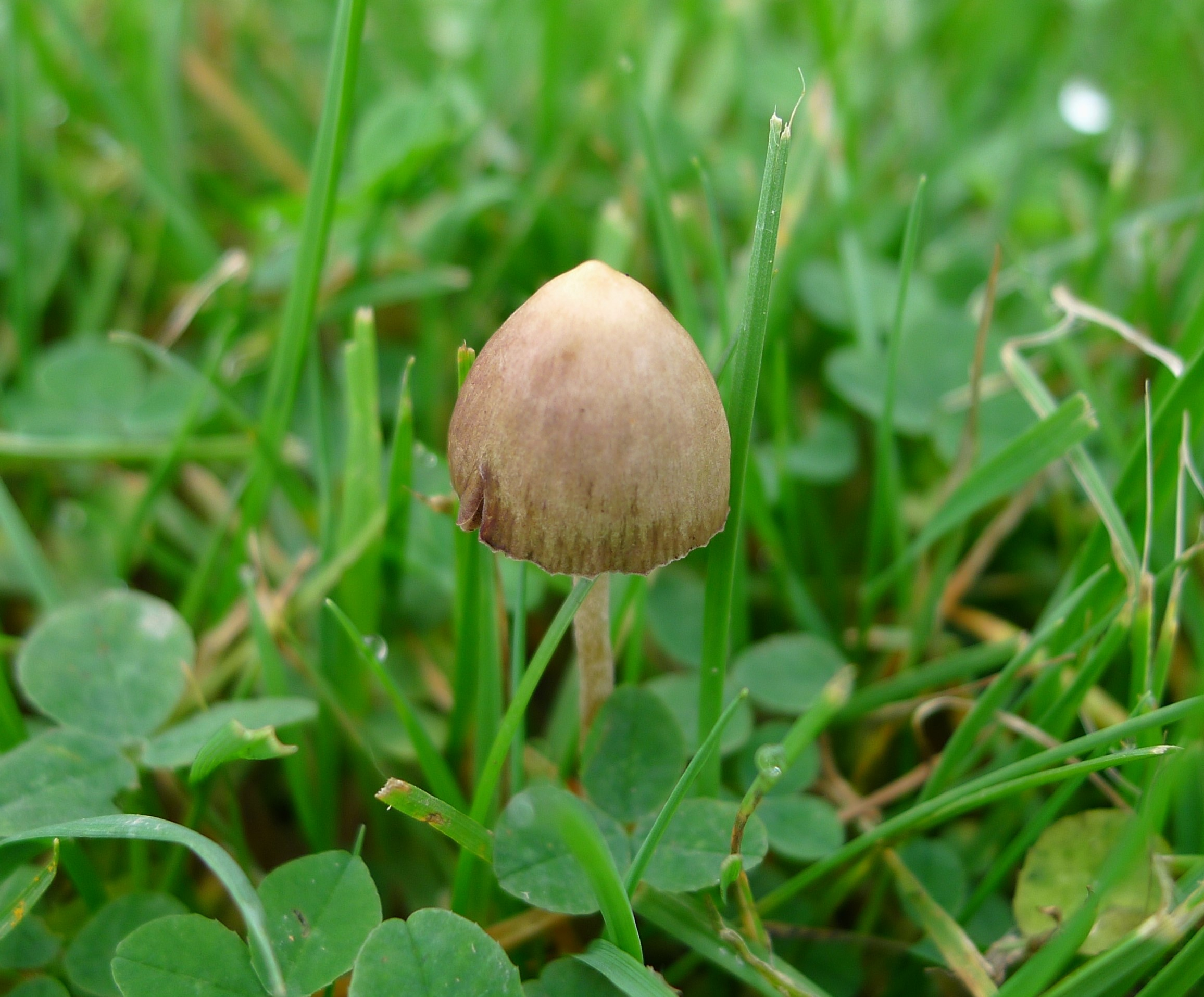 Forest of Dean. Glos. SO559131